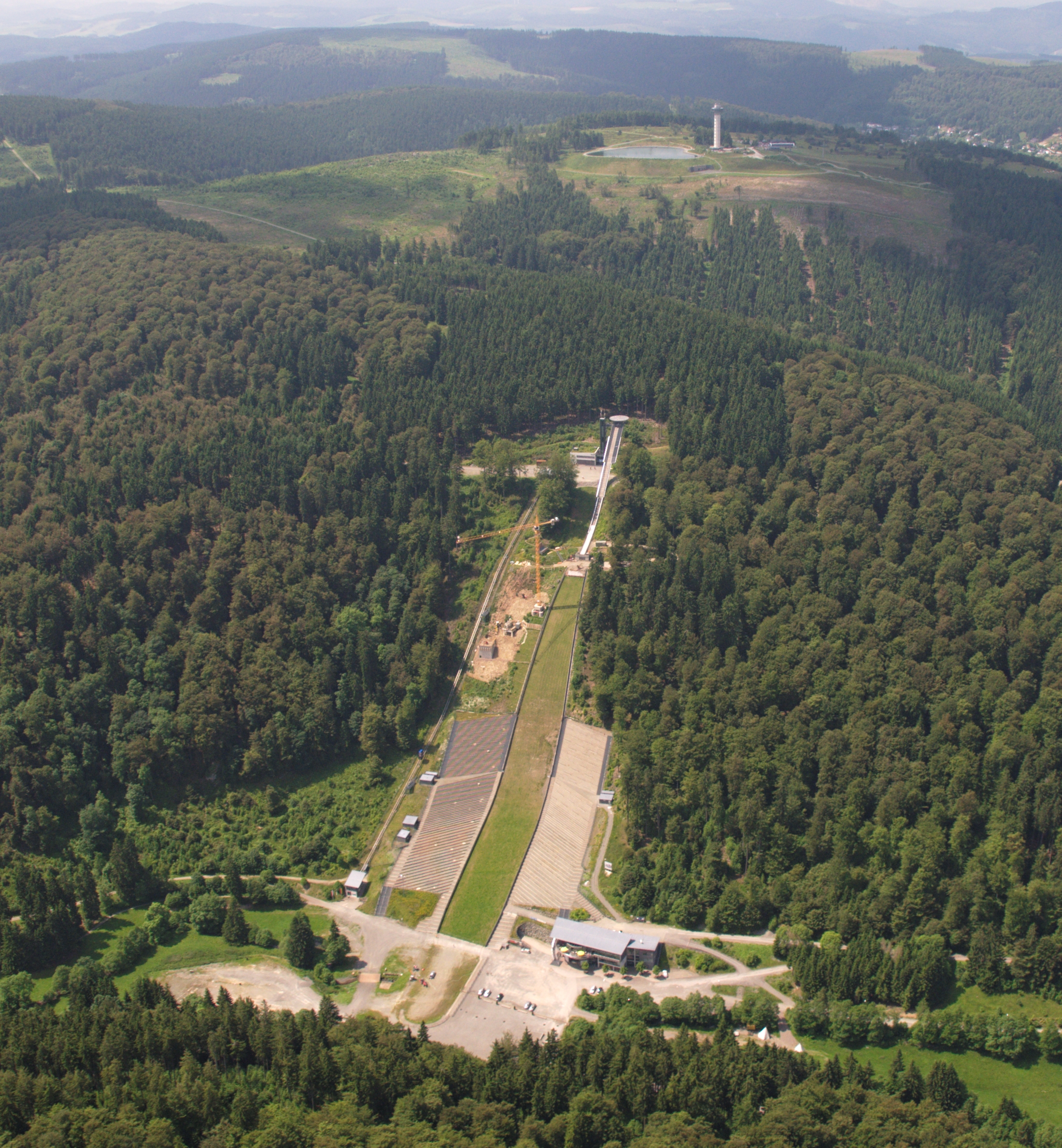 Fotoflug Sauerland-Ost: Willingen (Upland), Mühlenkopfschanze The making of this document was supported by the Community-Budget of Wikimedia Germany.